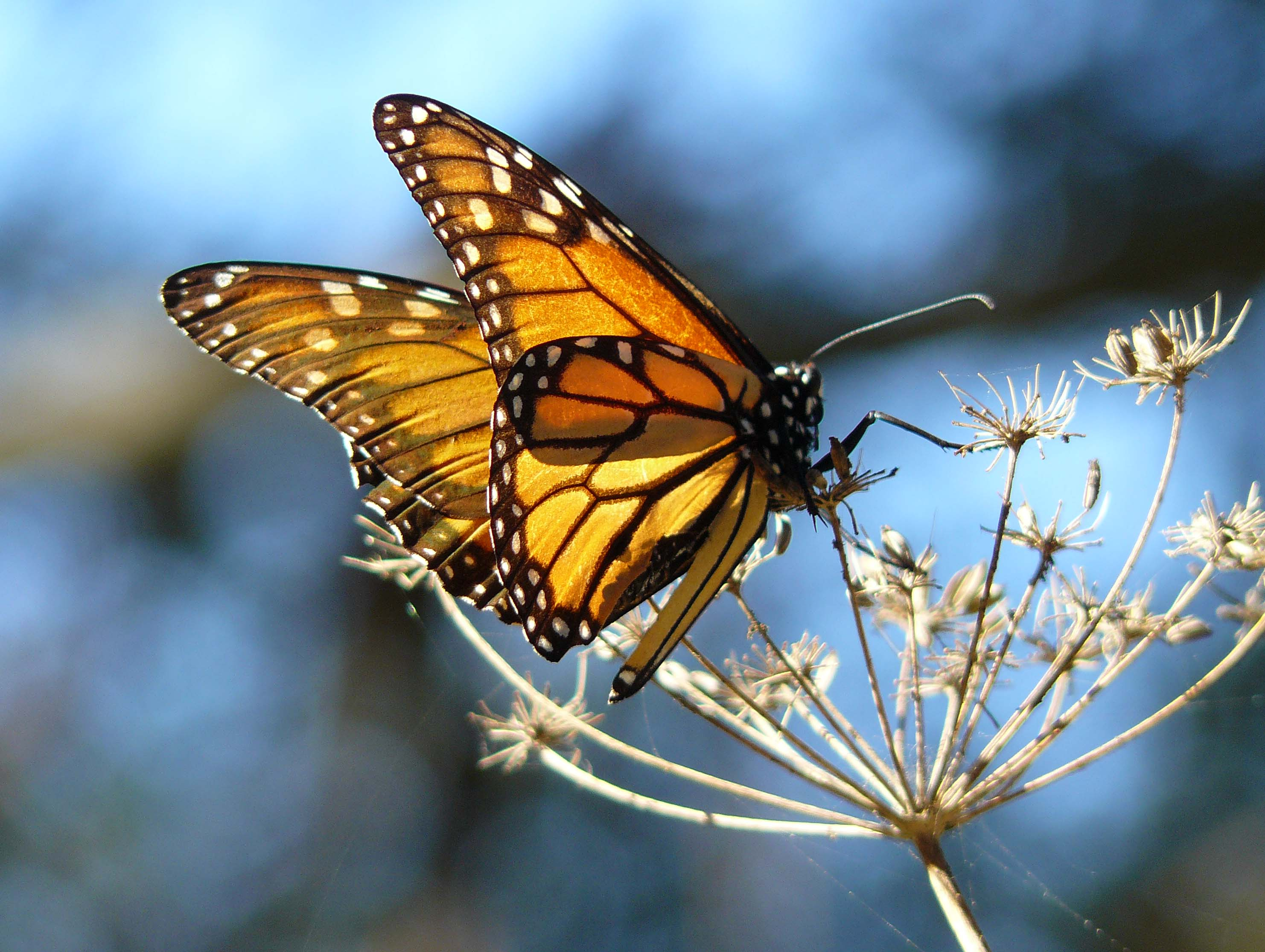 Monarch Butterfly resting on Fennel. Viewed at the Pismo Butterfly Grove located on Hwy. I, a short distance from the entrance to Pismo Beach State Park.